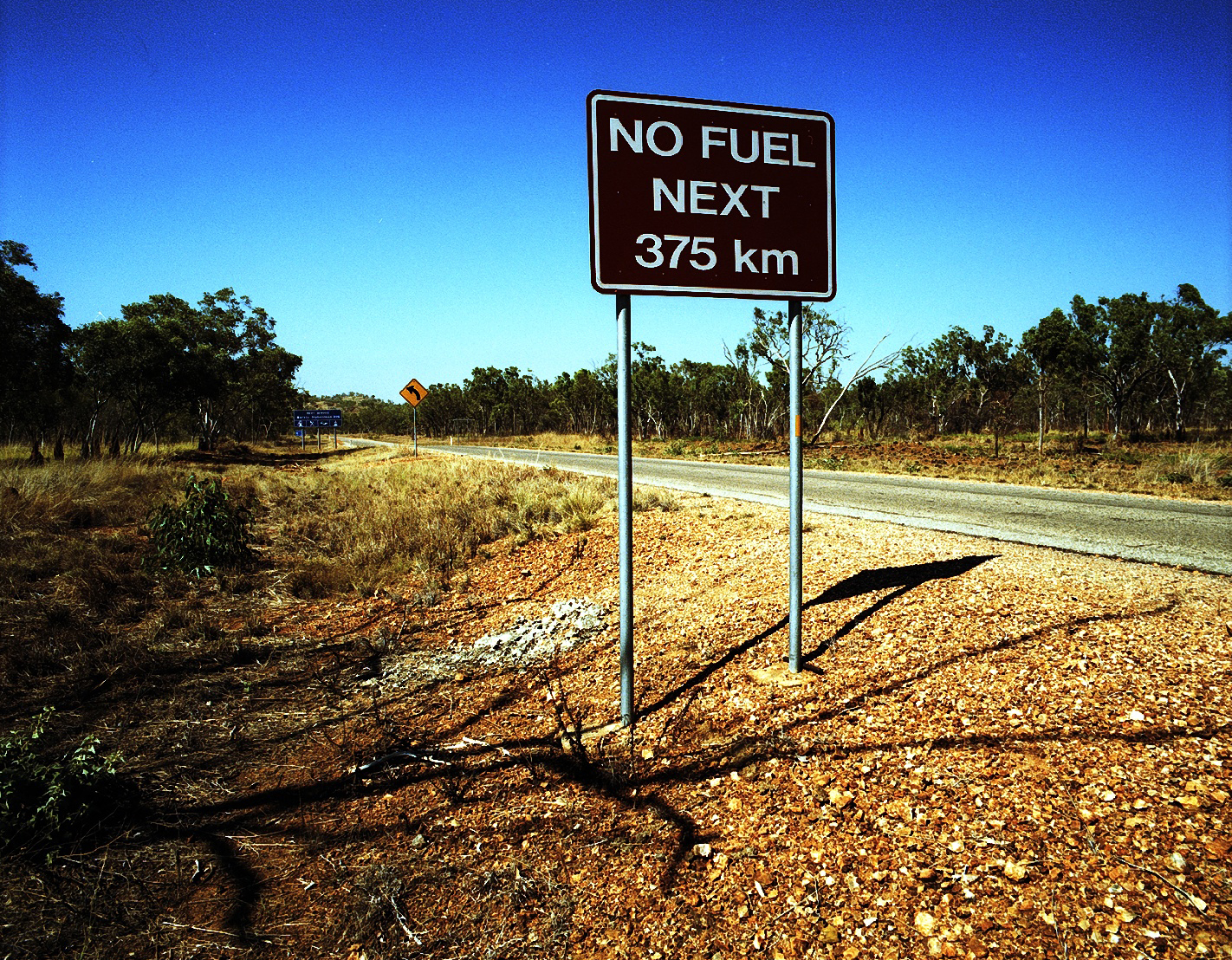 The road from Cape Crawford to Barkly Homestead in Australia's Northern Territory.